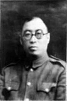 Liang Huazhi